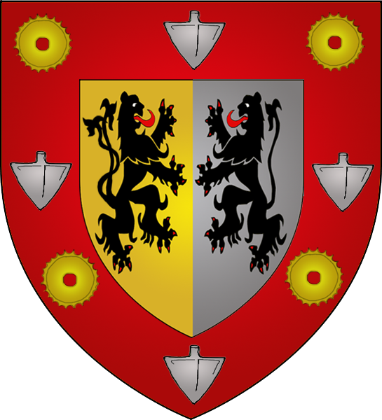 Coat of arms of the municipality of Sanem, Luxembourg